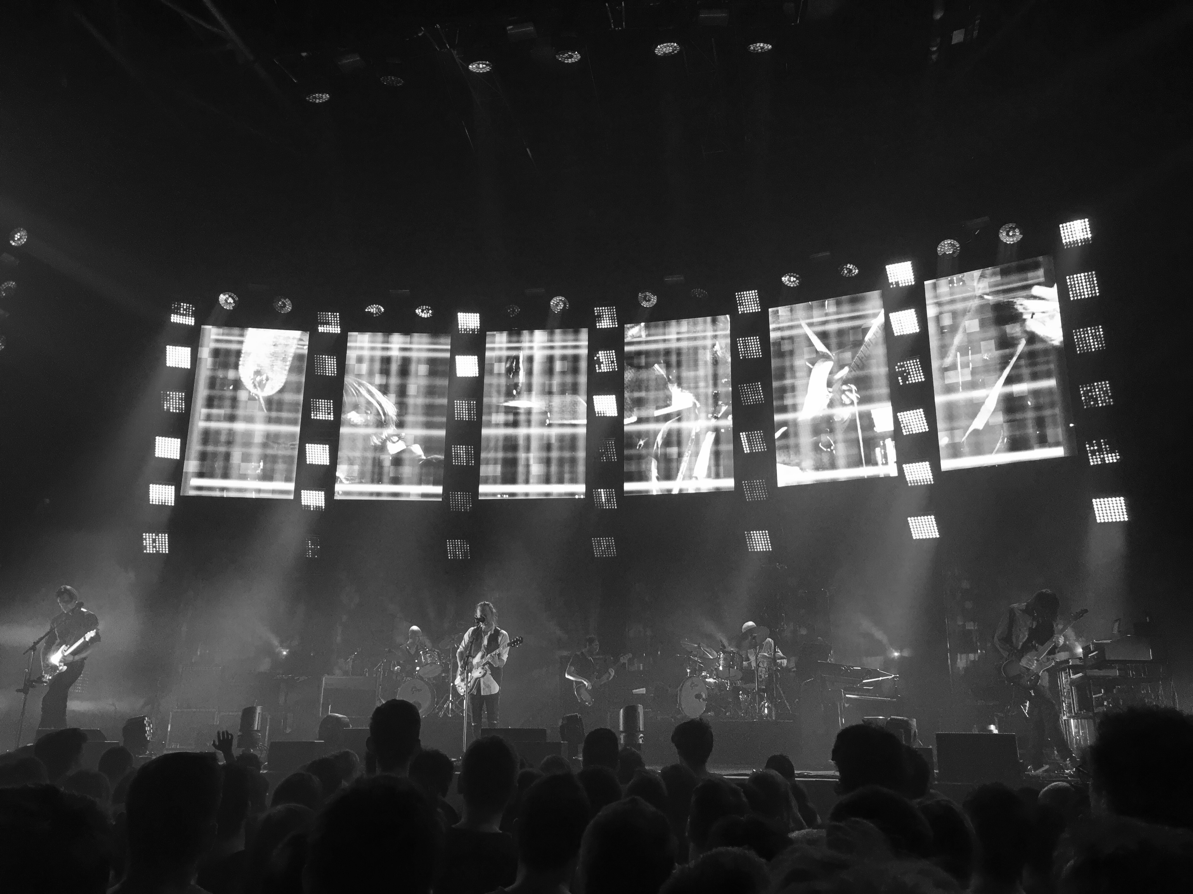 Radiohead second show at Le Zénith in Paris during the A Moon Shaped Pool tour. Le Zénith, May 24th 2016